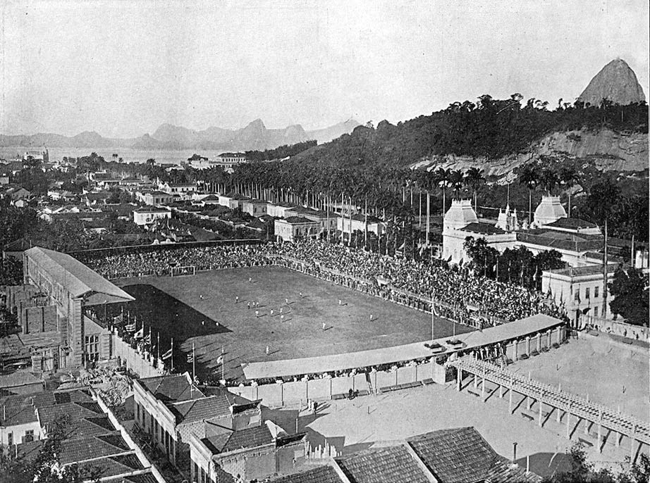 Estadio Das Laranjeiras during a Brazil v Argentina match, Copa América.